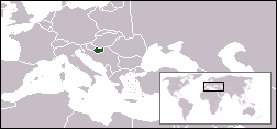 Originally created for English Wikipedia by Realismadder based on the Wikipedia map of pre-World War 2.